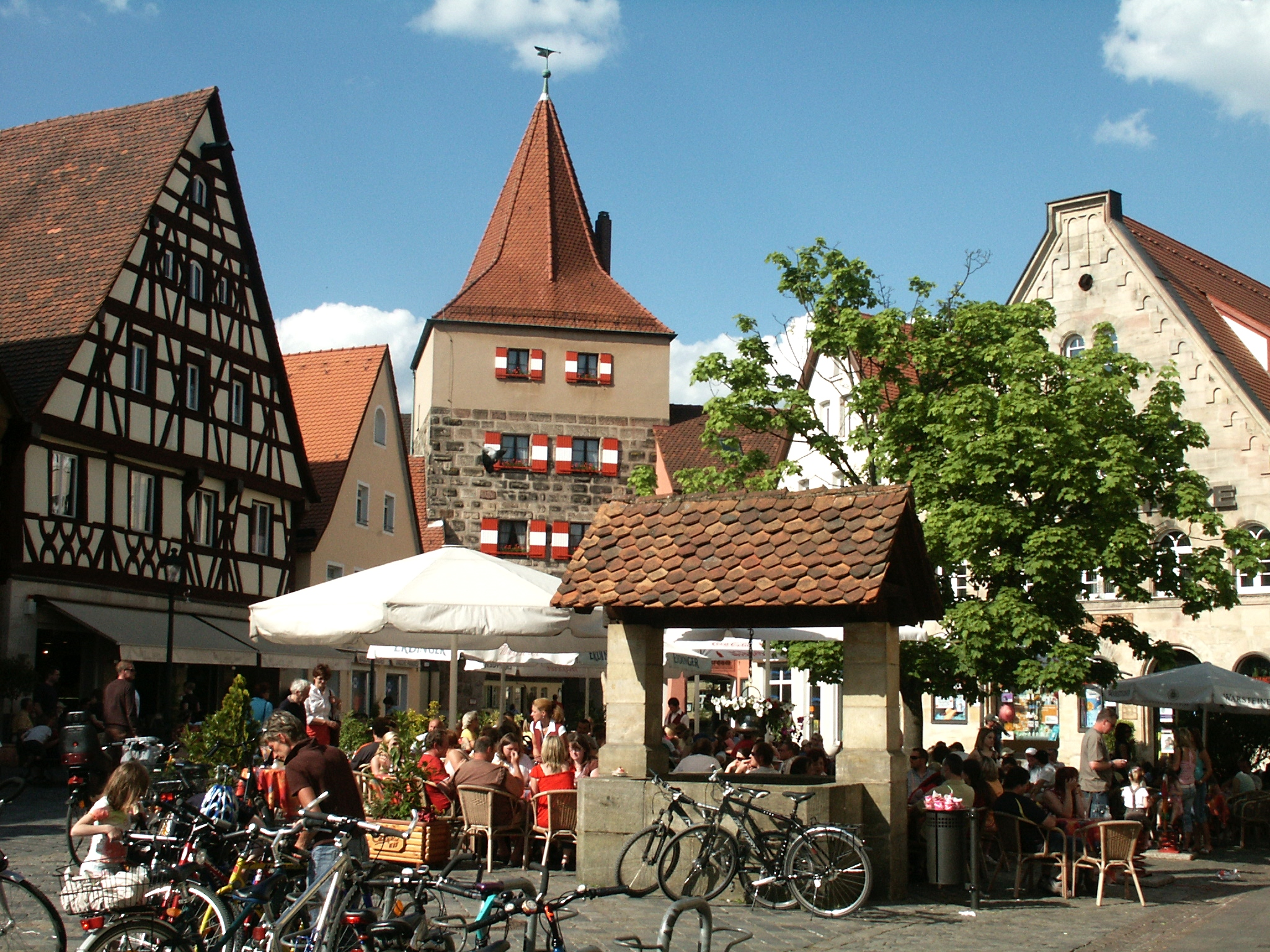 Market place in front of city gate "Hersbrucker Tor" of German city Lauf an der Pegnitz